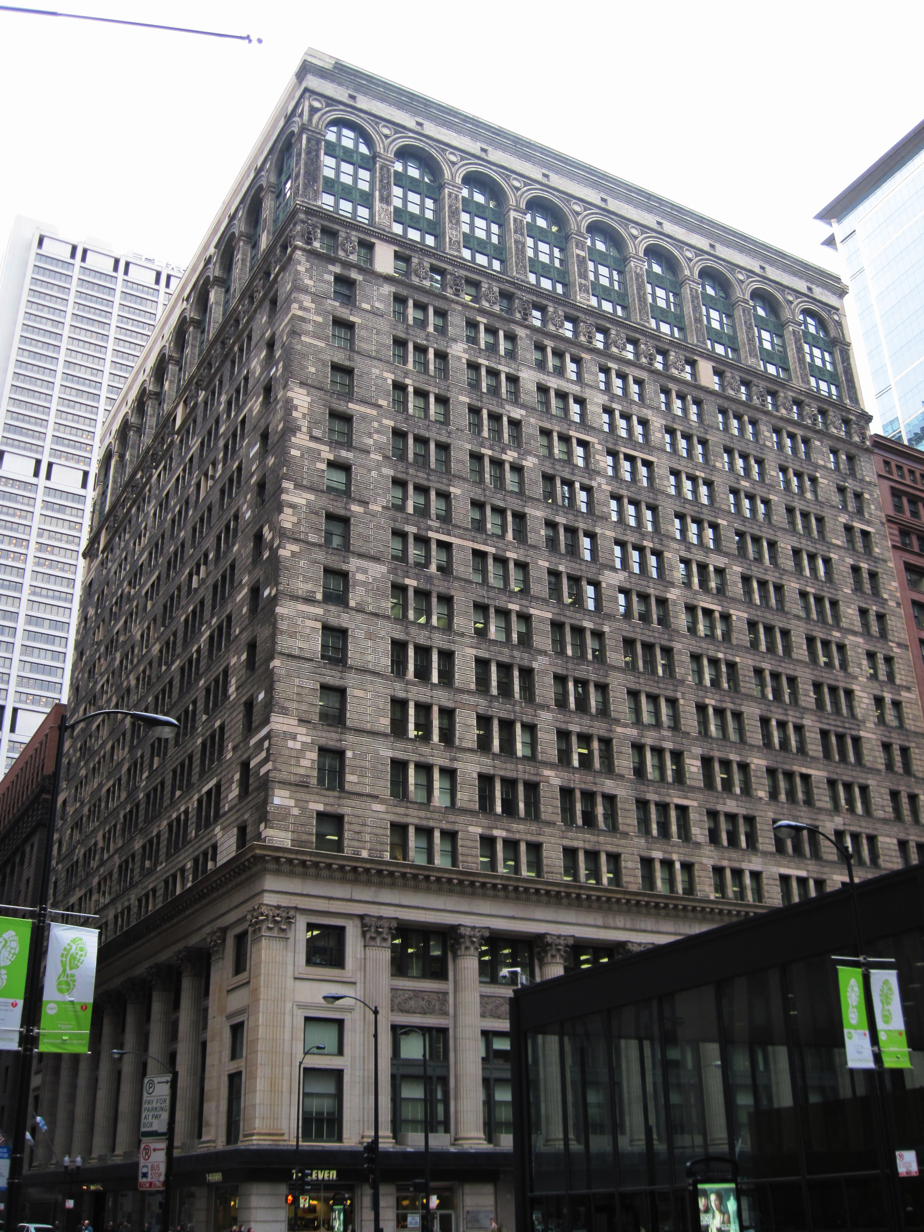 125 South Clark Street in Chicago (home to Chicago Public School central office)